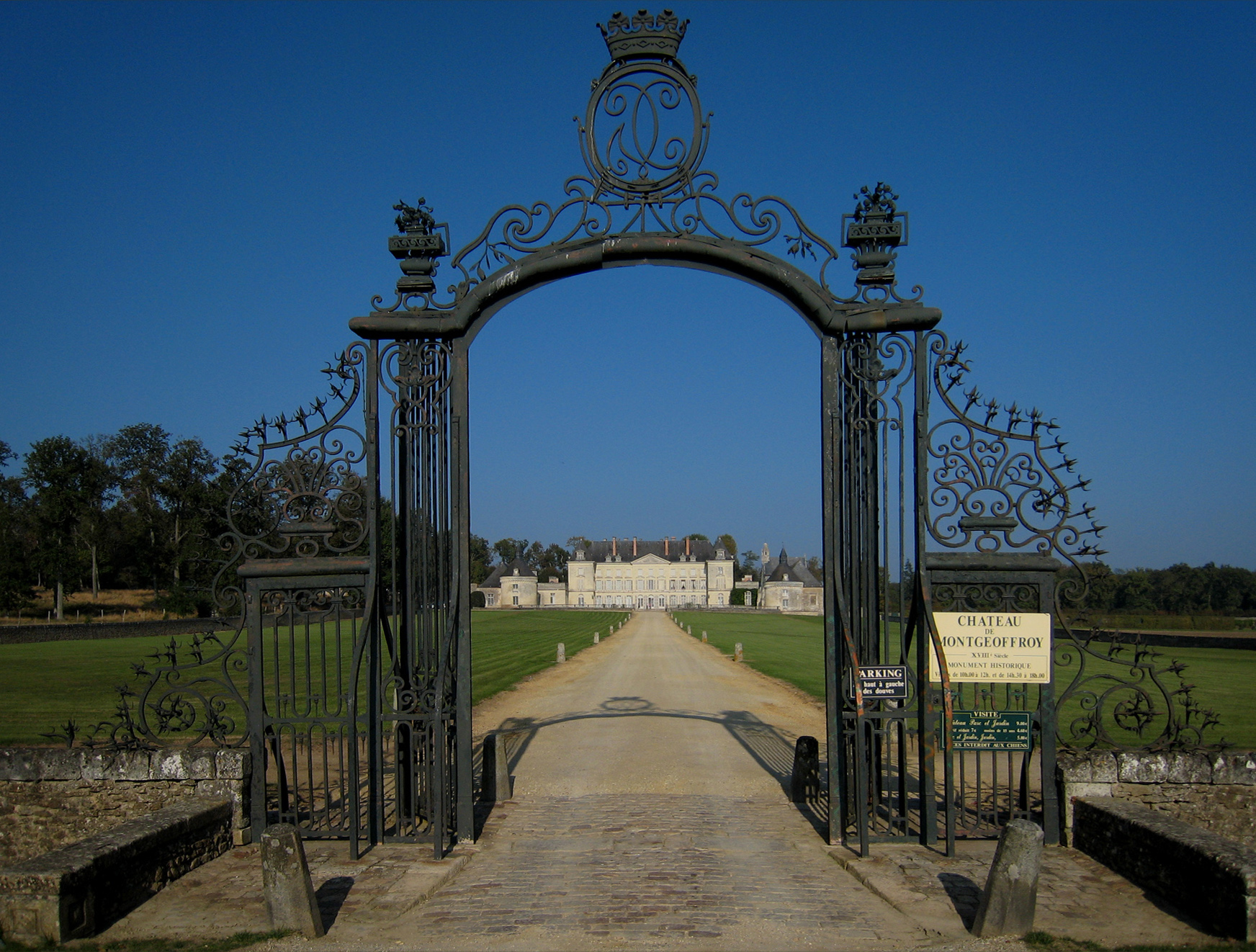 Castle Montgeoffroy, located near the village of Mazé in the county of Maine-et-Loire/France